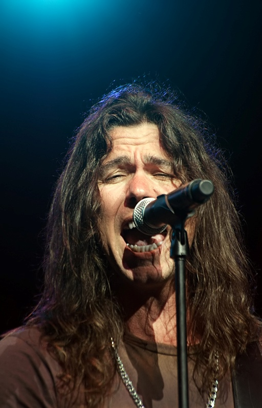 Mark Slaughter performing at the Del Mar Fairgrounds.